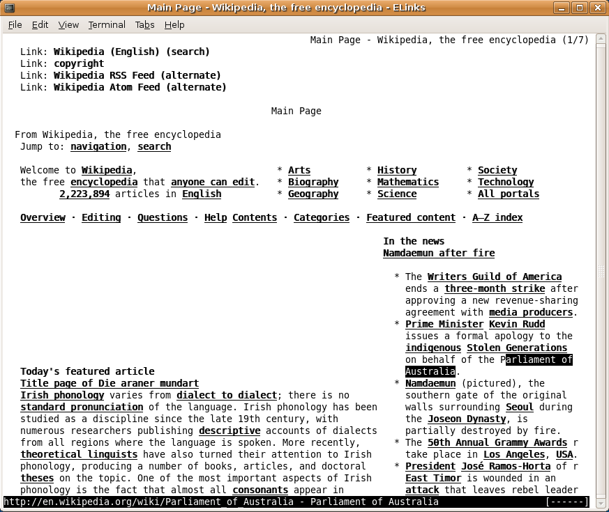 Screenshot of a program released under the GPL taken by the uploader.